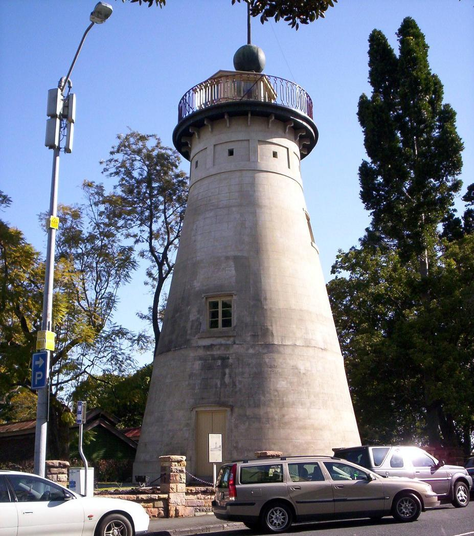 The Windmill -- Wickham Terrace, Brisbane, Queensland, Australia